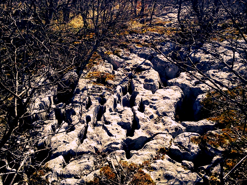 Garvanov kamuk peak Vrabcha BG